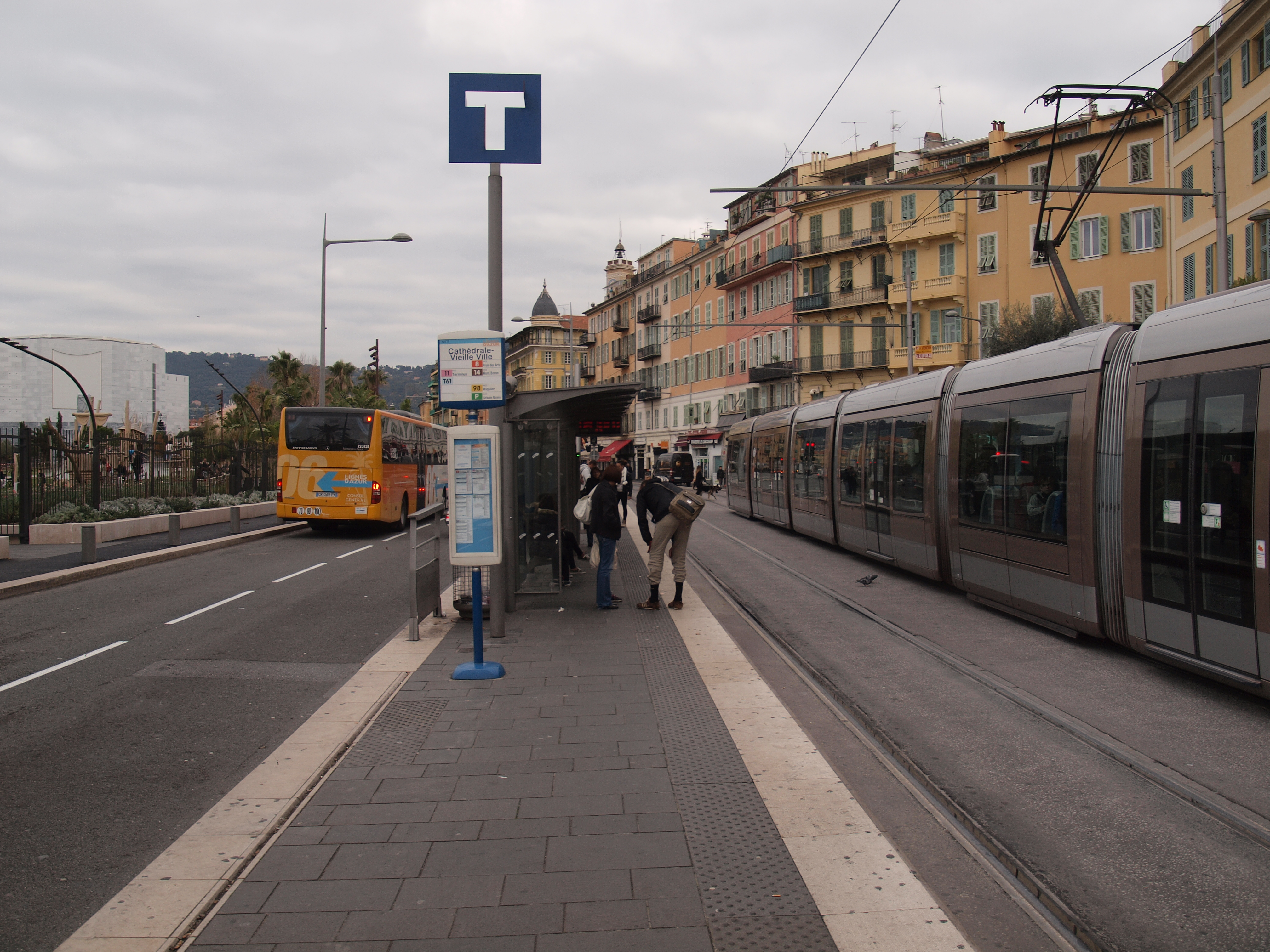 The tram stop Cathédrale-Vieille Ville in central Nice, Alpes-Maritimes, France.